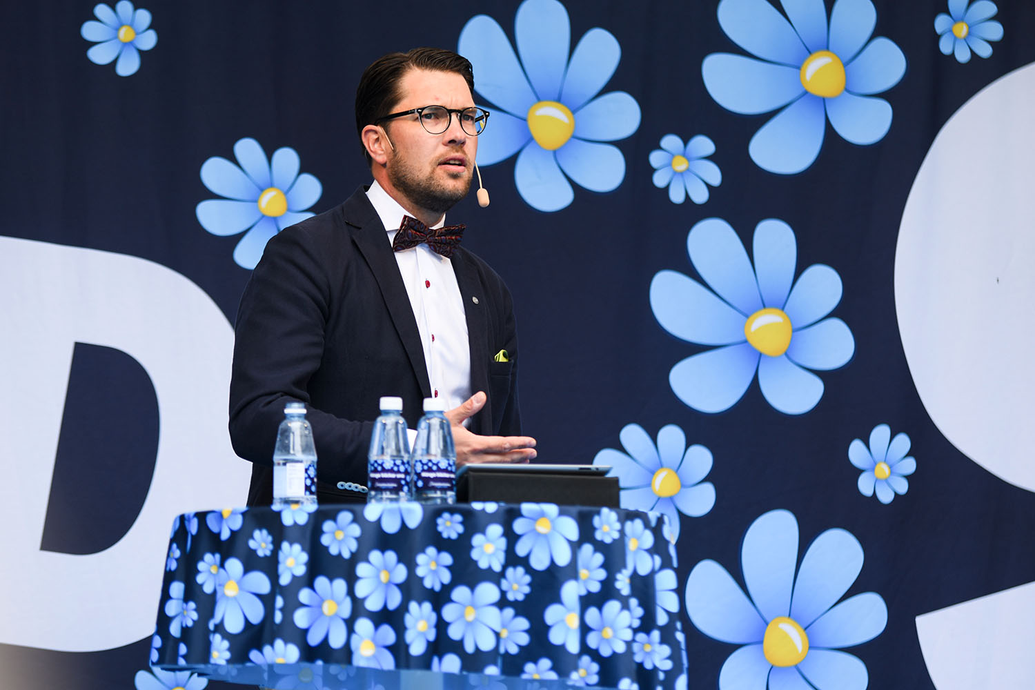 Jimmie Åkesson 2016-05-14